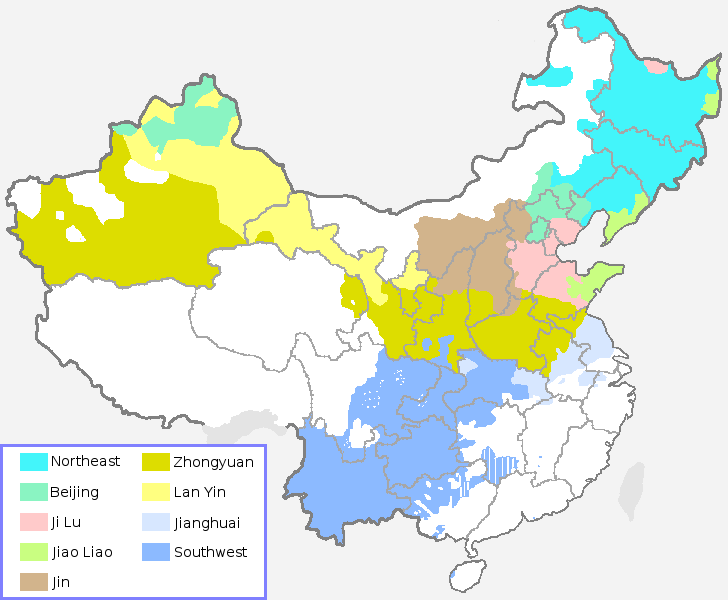 Map of subgroups of the Mandarin dialect group, plus the Jin dialect group often considered part of Mandarin, based on Language Atlas of China, by Stephen Adolphe Wurm, Rong Li, Theo Baumann and Mei W. Lee, Longman, 1987, ISBN 978-962-359-085-3.